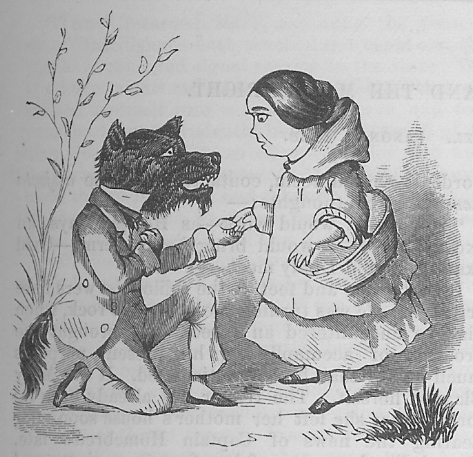 Scan from 1870 reprint of 1858 book "cyclopedia of Wit and Humor" edited by William E. Burton. Both picture and book are in public domain